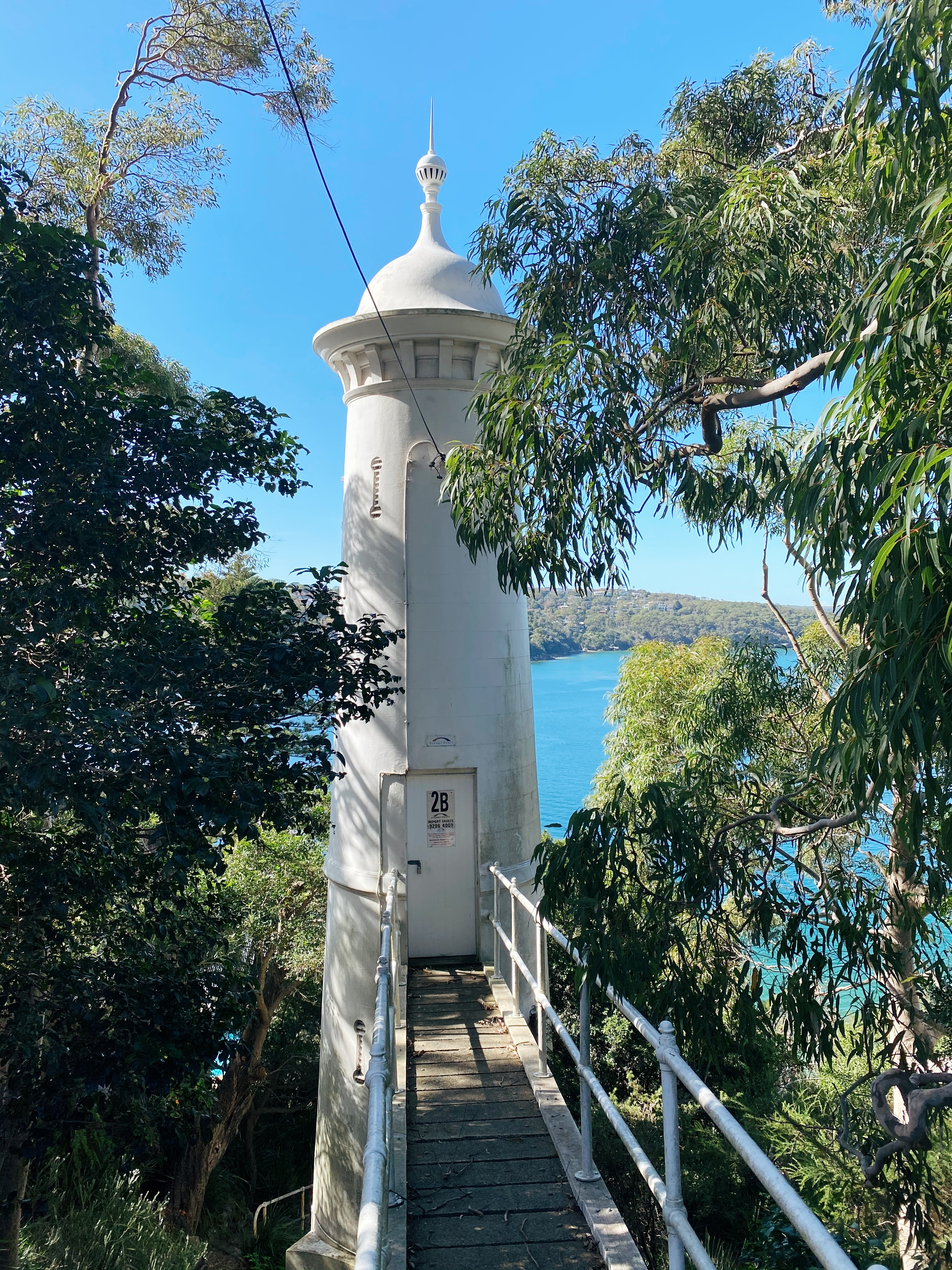 A light house, called Parriwi Lighthouse, located in Mosman, NSW, off Parriwi Road.